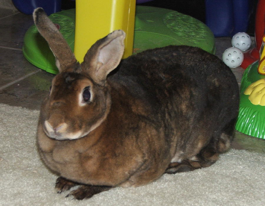 Female Minirex rabbit, castor color by ARBA designation